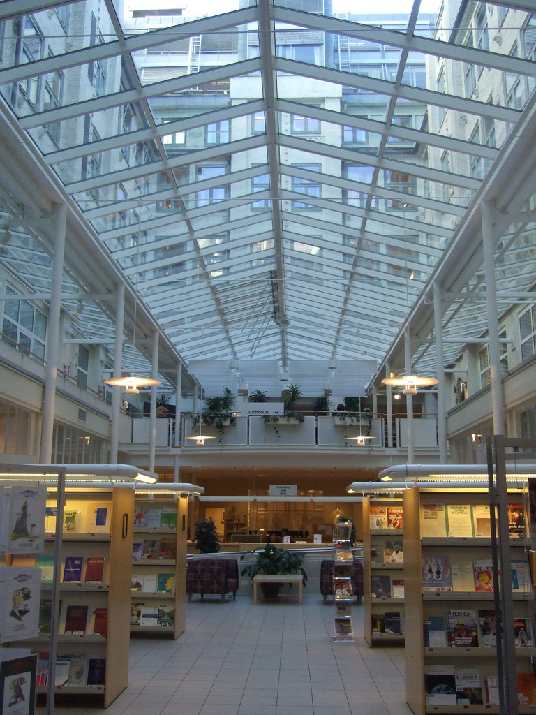 Statistics Norway (no: Statistisk Sentralbyrå). Inside main office